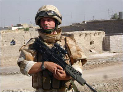 RAF Regiment Gunner wearing Osprey body armour in the outskirts of Basrah City, Iraq. Easily visible are the upper arm protectors and collar which offer enhanced protection against fragmentation.